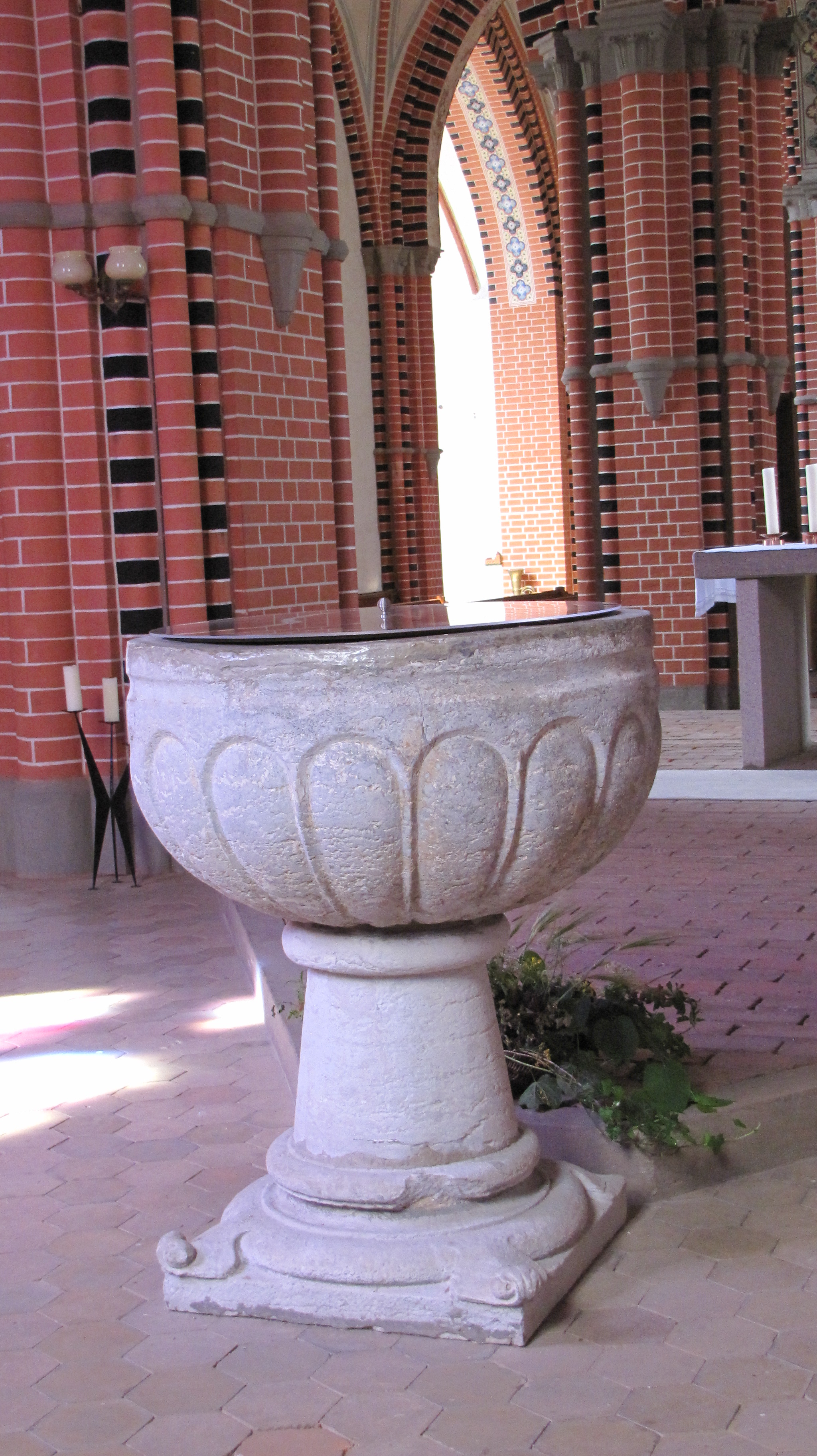 Baptismal font in St. Nikolai, Grevesmühlen